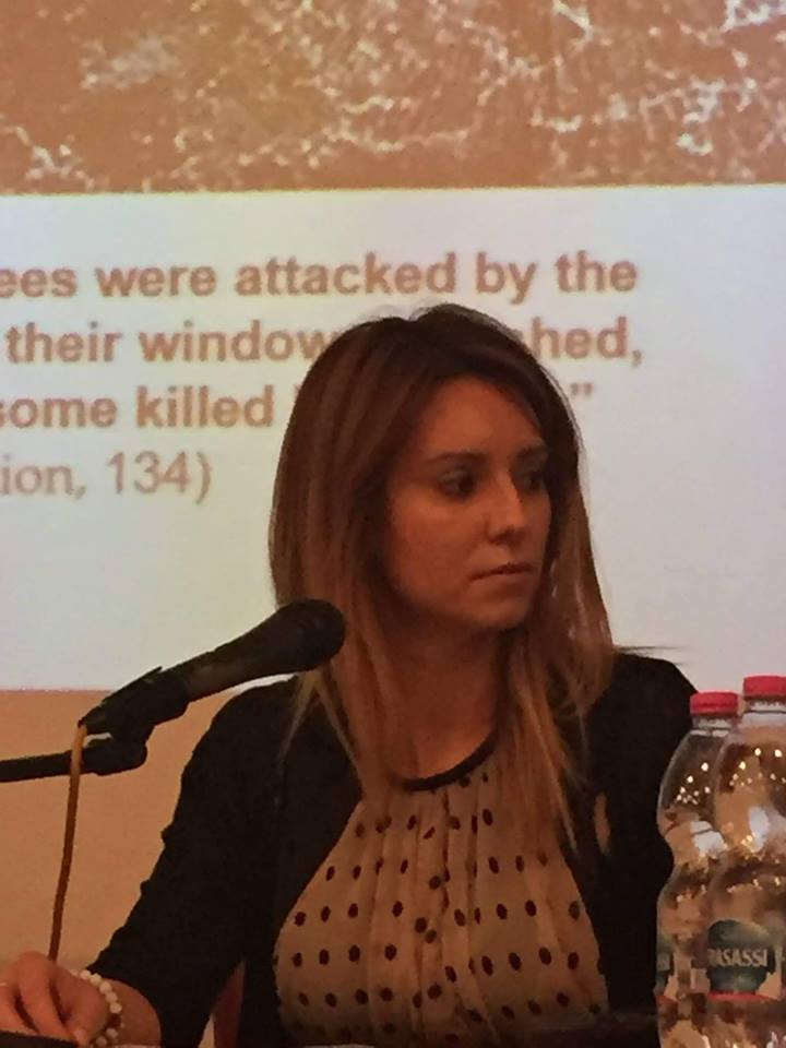 Jelena Arsenijevic Mitric in Sapienza University of Roma, Italy, 2017.